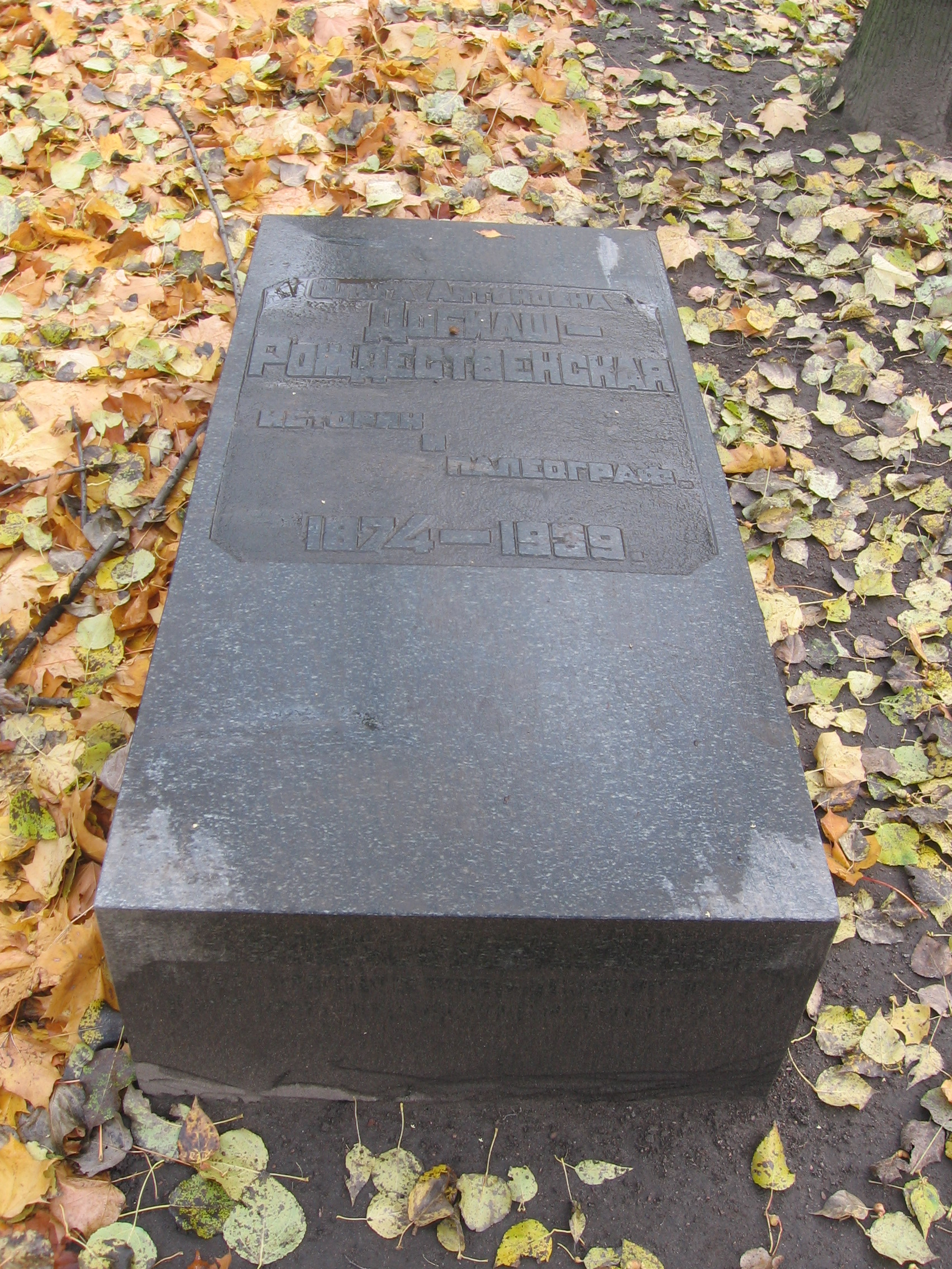 Grave of Olga Dobiash-Rozhdestvenskaya